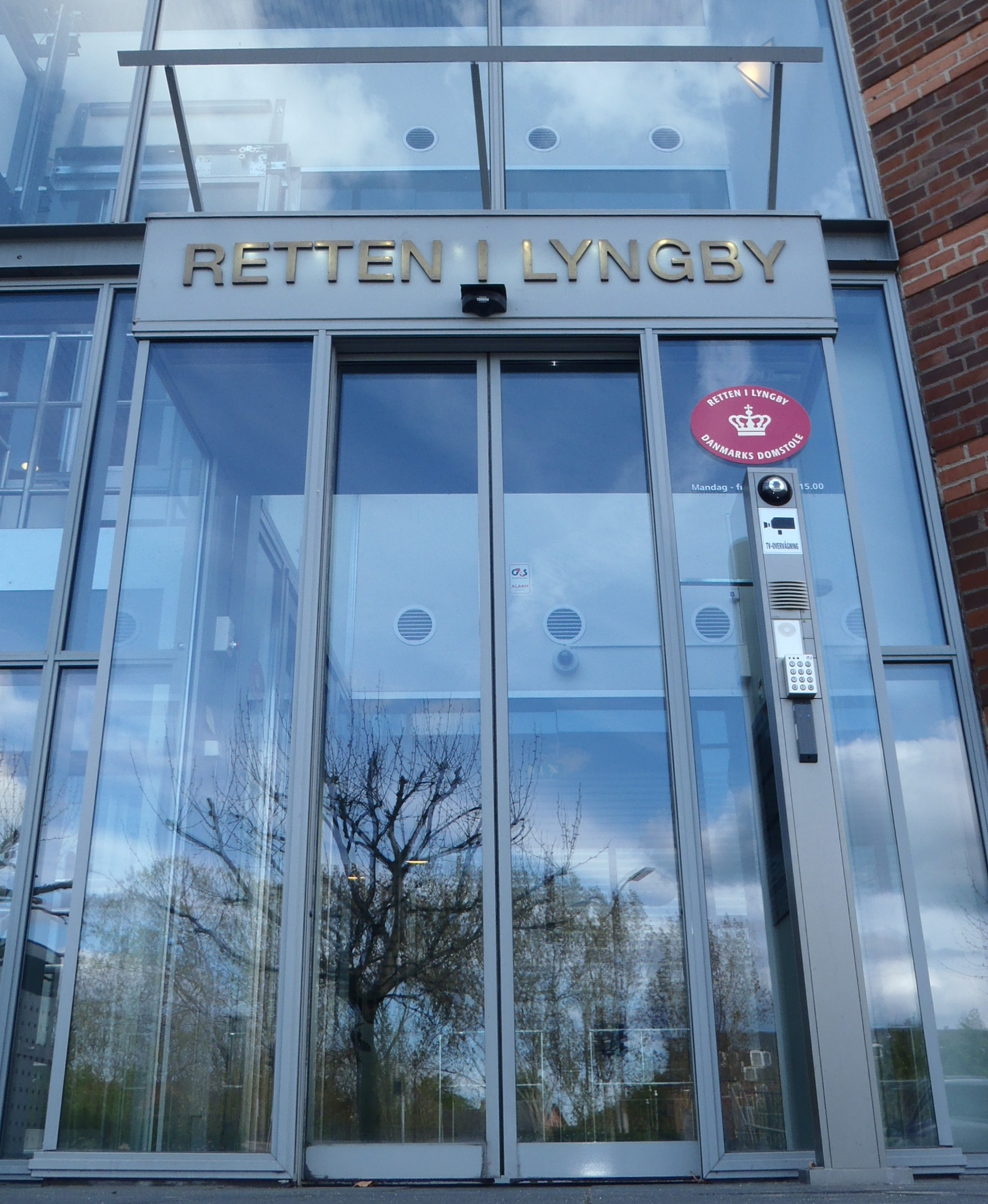 Court in Kongens Lyngby.